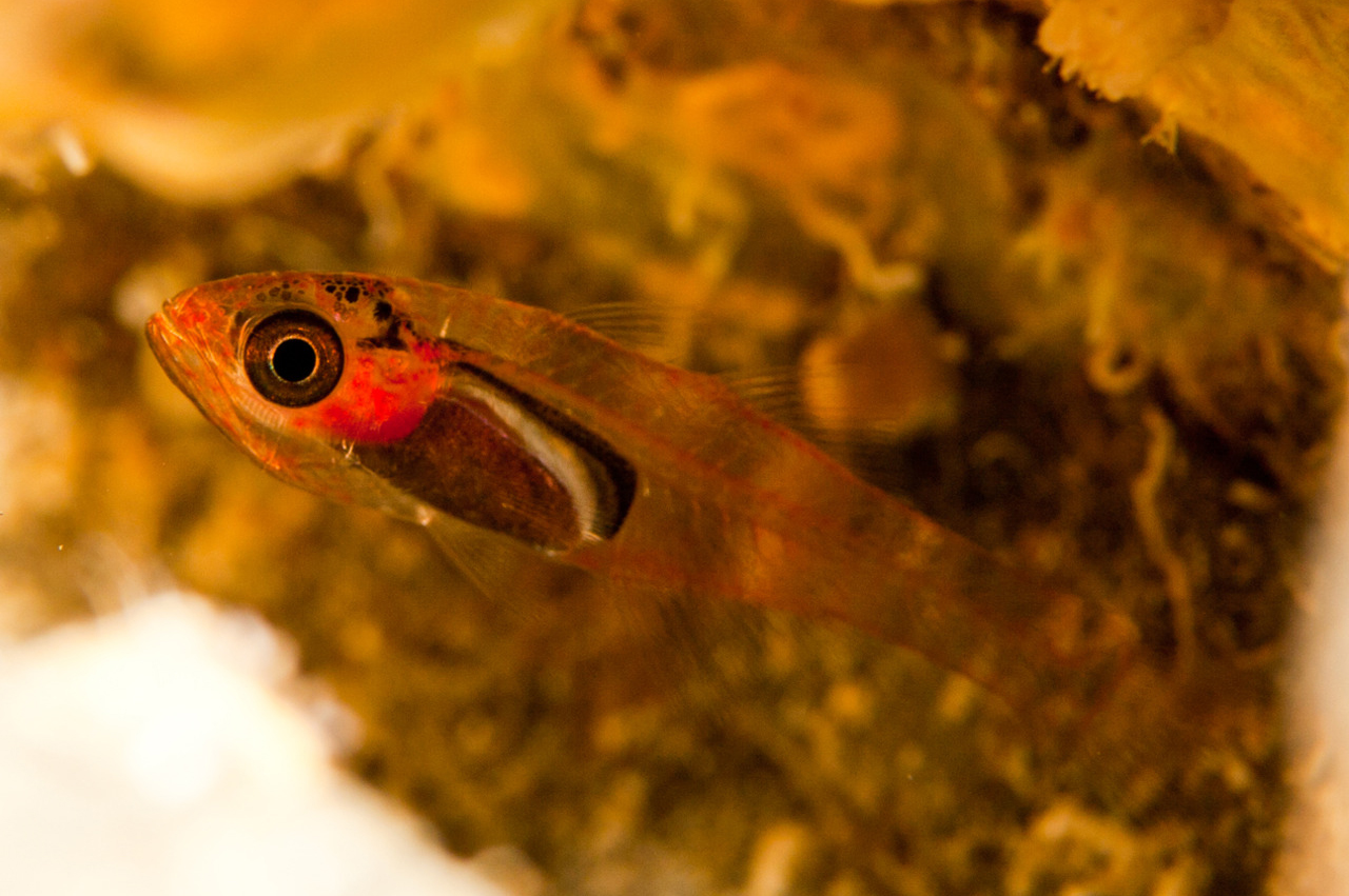 A Glassy Cardinalfish, Cercamia eremia, at Hitomaru Island, Ogasawara, Japan, depth 9 m.